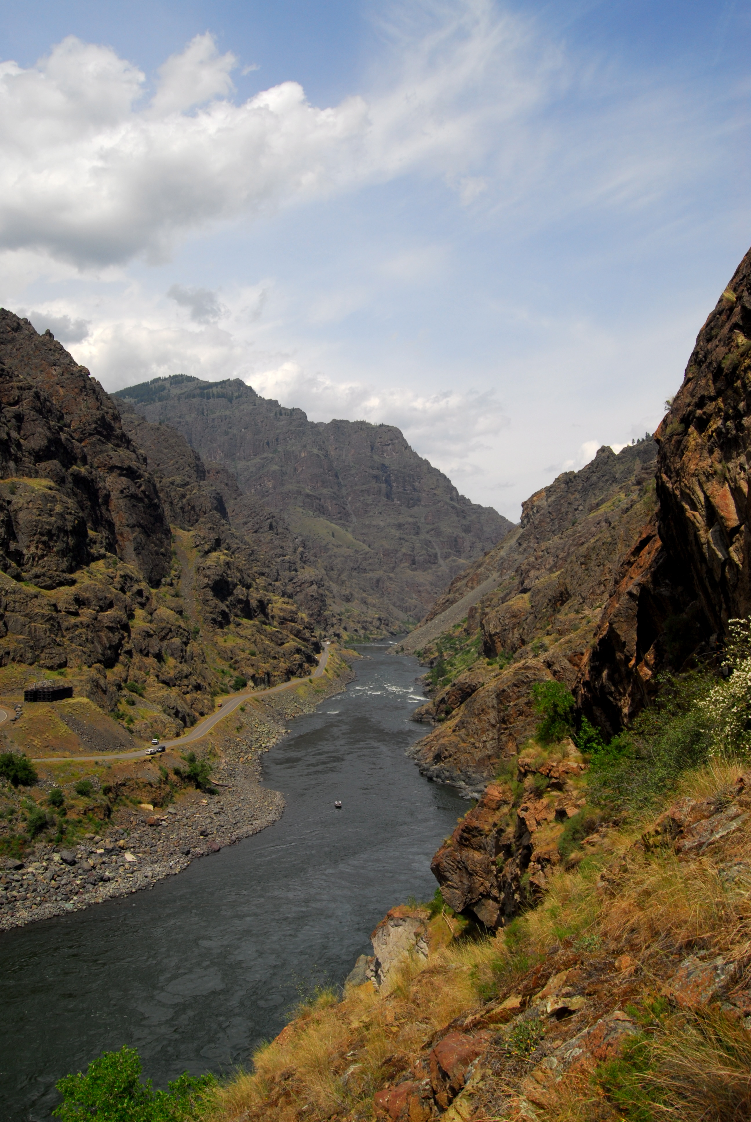 Hells Canyon Dam - North View